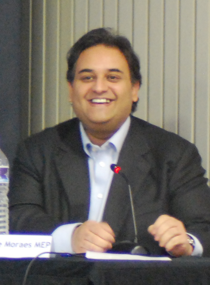 London MEP for the Labour Party, Claude Moraes. Speaking at the Fabian Society Social EU in February 2012